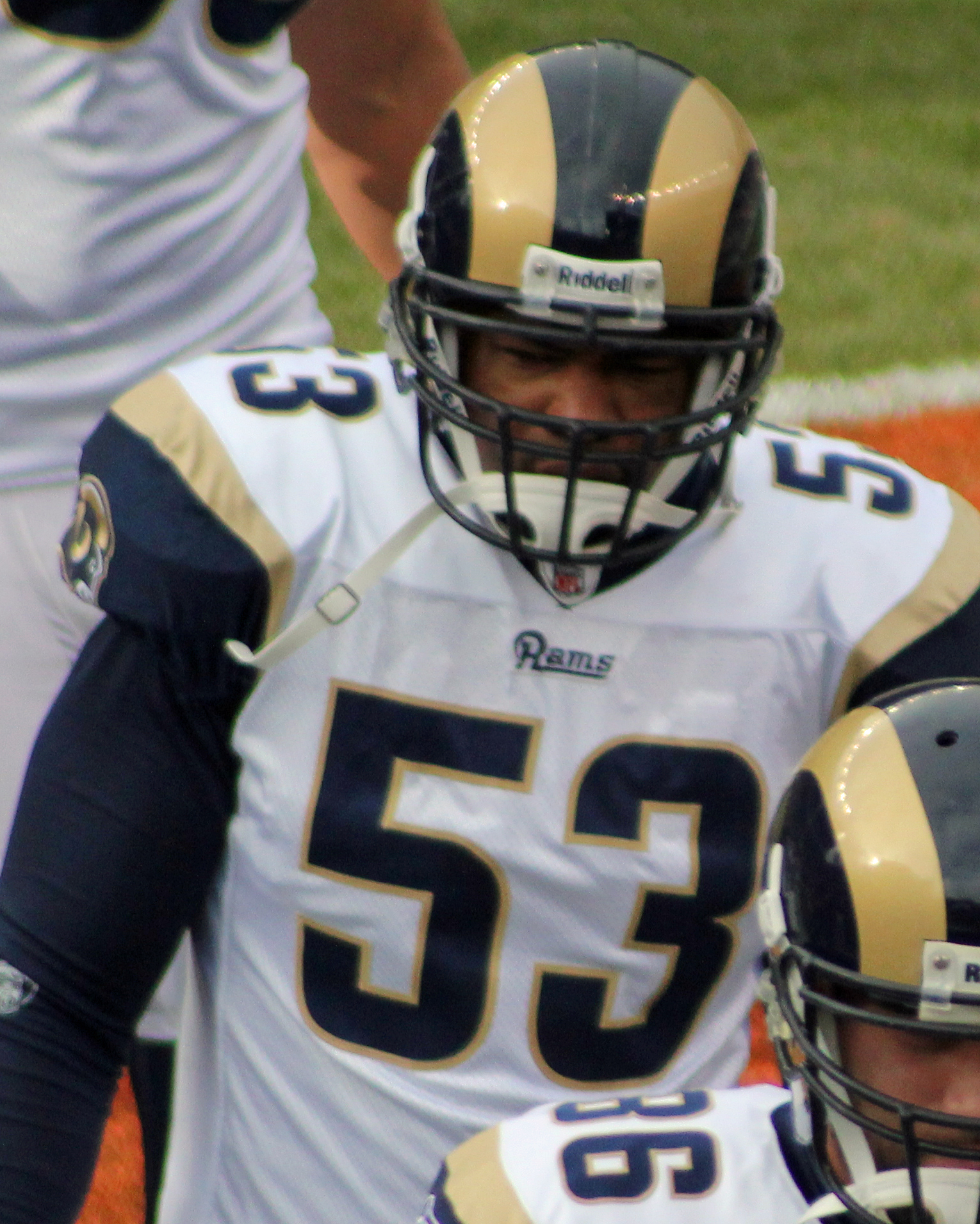 Na'il Diggs, a player on the Saint Louis Rams American football team.